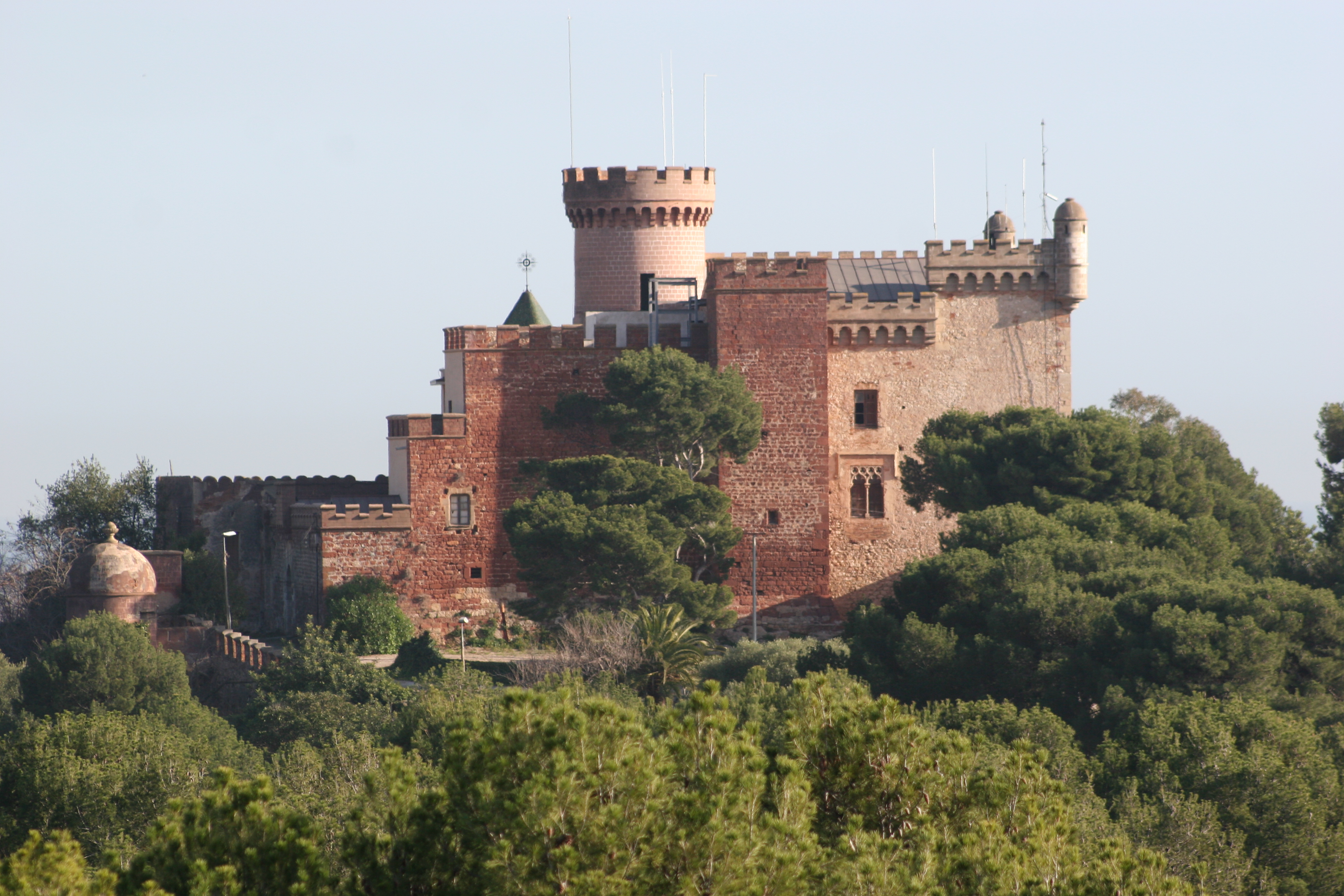 Castle of Castelldefels (Barcelona, Catalonia, Spain). Despite its construction started in the second half of the tenth century, its current appearance corresponds to a renovation of the 1550 (red castle) and a new body (white) built from the second half of the seventeenth century until the second half of the eighteenth.